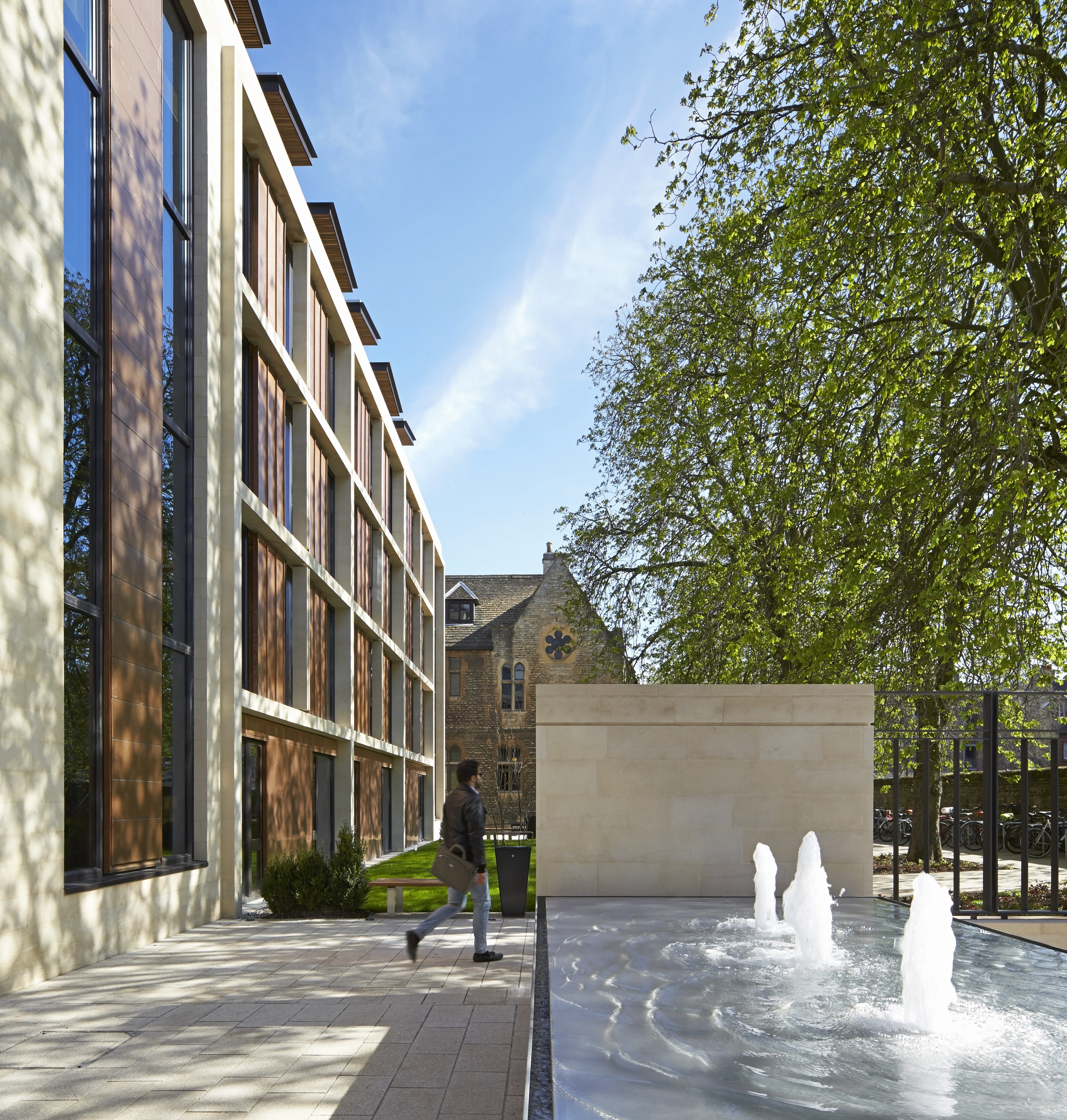 The Gateway Buildings, St Antony's College, c.2016.